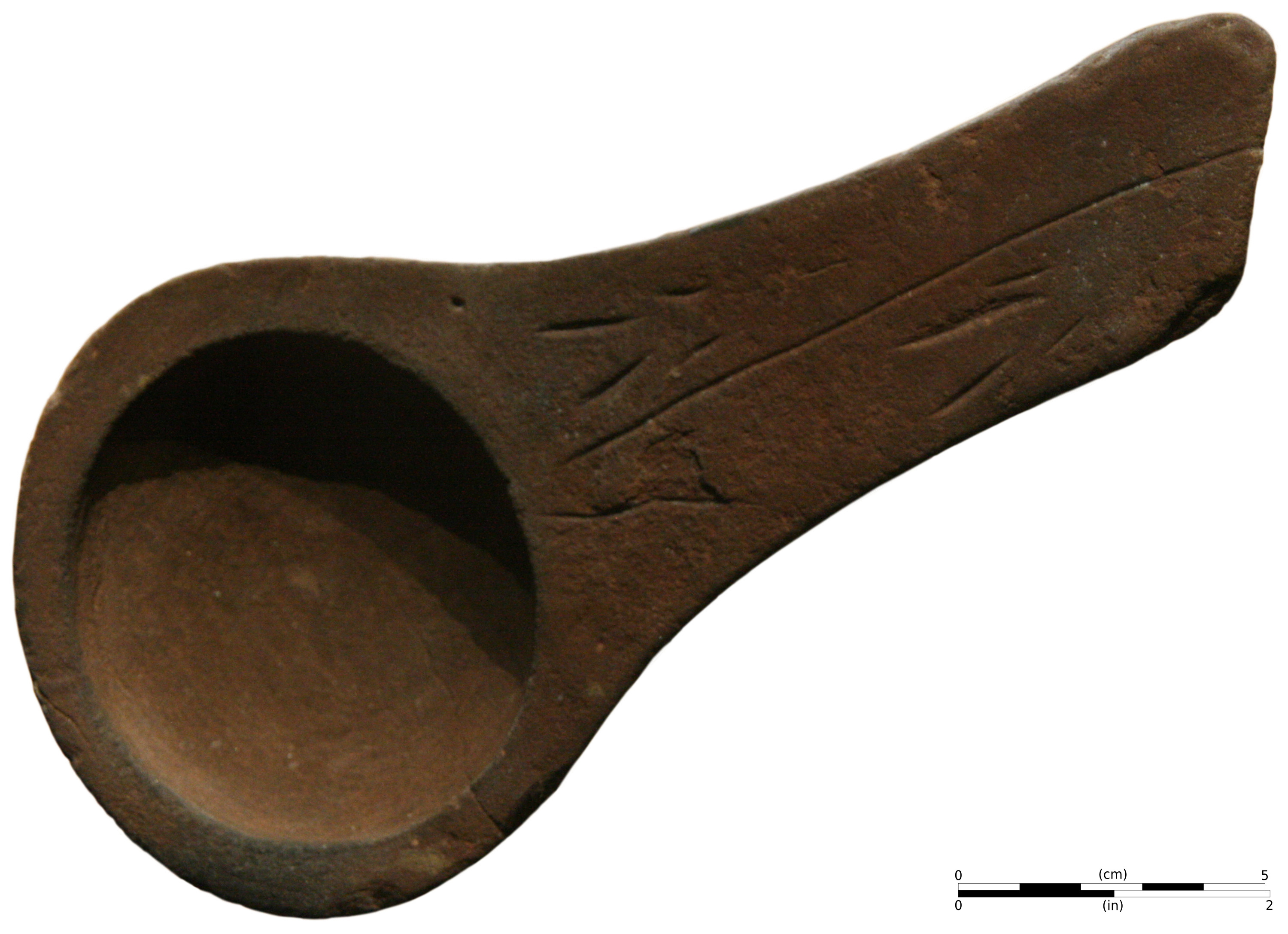 Oil lamp (exactly, deer fat lamp), found in Lascaux cave in Montignac, Dordogne, Aquitaine, France. Magdalenian culture, 17,000 BP. It can be viewed in the National Prehistory Museum in Les Eyzies-de-Tayac.